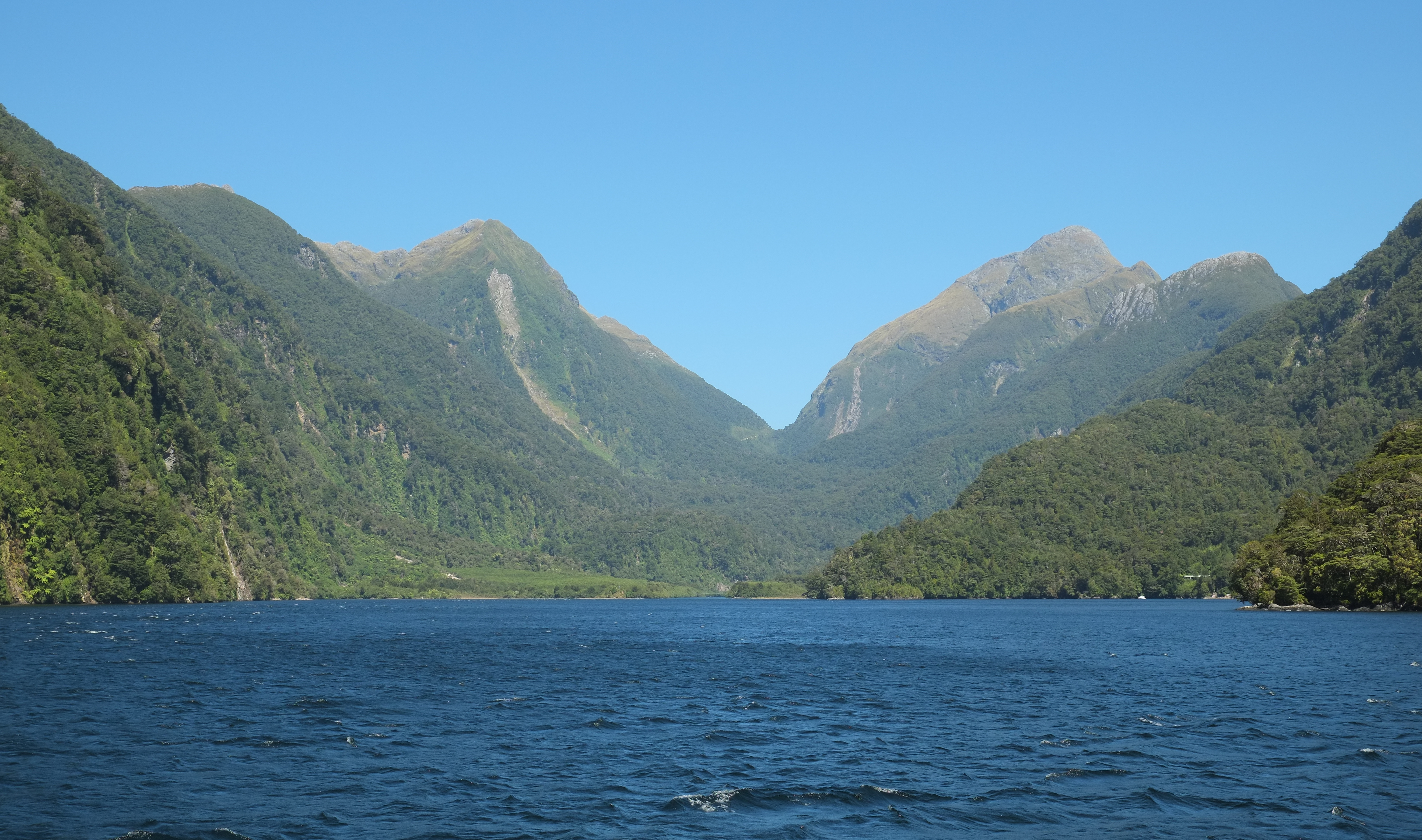 Deep Cove in Doubtful Sound in front of Wilmot Pass (the access road is visible just below the pass to the left). The outlet from the Manapouri Hydroelectric Power Station tailrace tunnels is in the center of the frame, with a small bridge crossing over it.